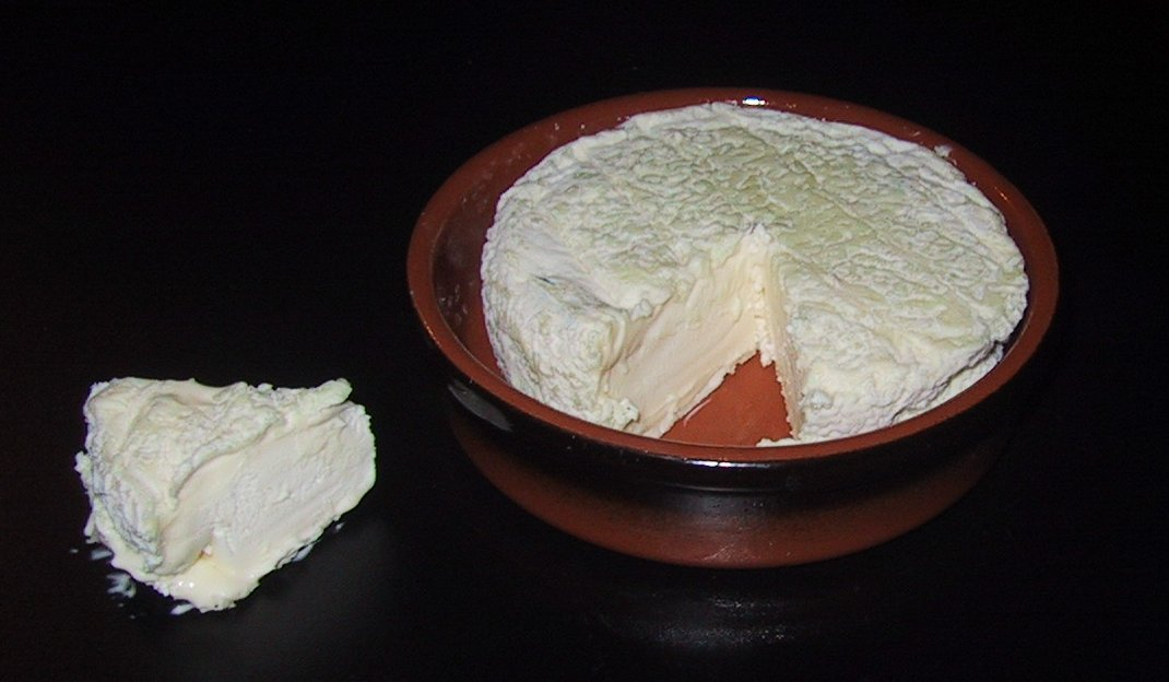 Saint-félicien cheese, France. Photography (c) 2005 Zubro (image by myself).